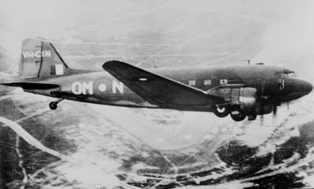 Douglas C47 Dakota transport aircraft bearing RAAF serial number A65-71, call sign VH-CIN and No. 37 Squadron RAAF code OM-N. The aircraft is banking steeply over an airfield which closely resembles Guilford, the civil airfield at Perth. On 6 July 1945 this aircraft flew the body of the late Prime Minister of Australia John Curtin from Canberra to Perth for burial (see AWM photographs 110561 and 110562). This aircraft was transferred to the AWM in 1980 but is maintained and still flown by the RAAF.